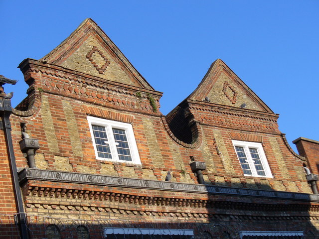 17th Century Gables, Godalming Above WH Smith are these brick and bargate stone Dutch-style gables. These used to be two private houses.